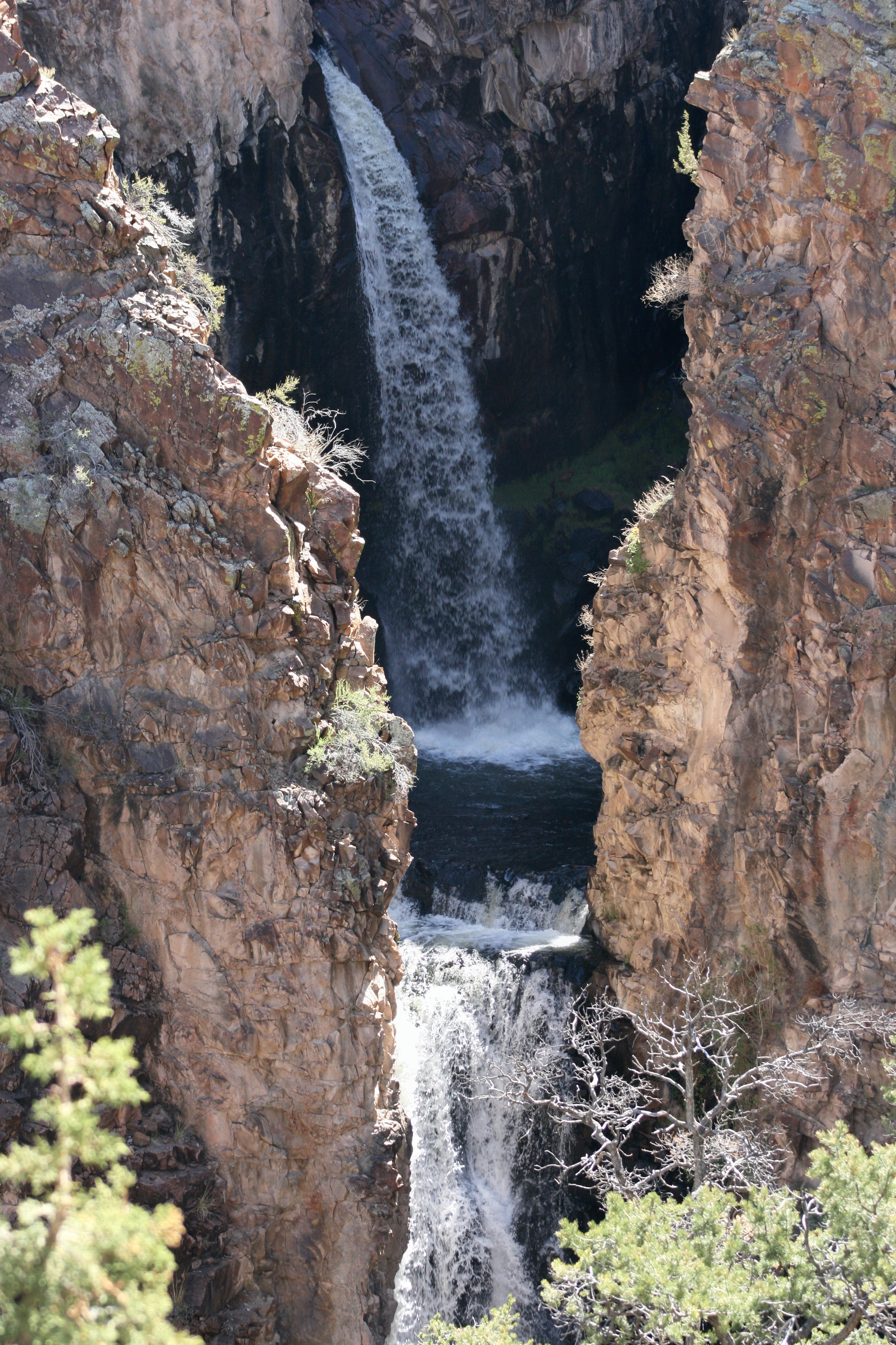 Nambe Falls, Nambe Pueblo, New Mexico